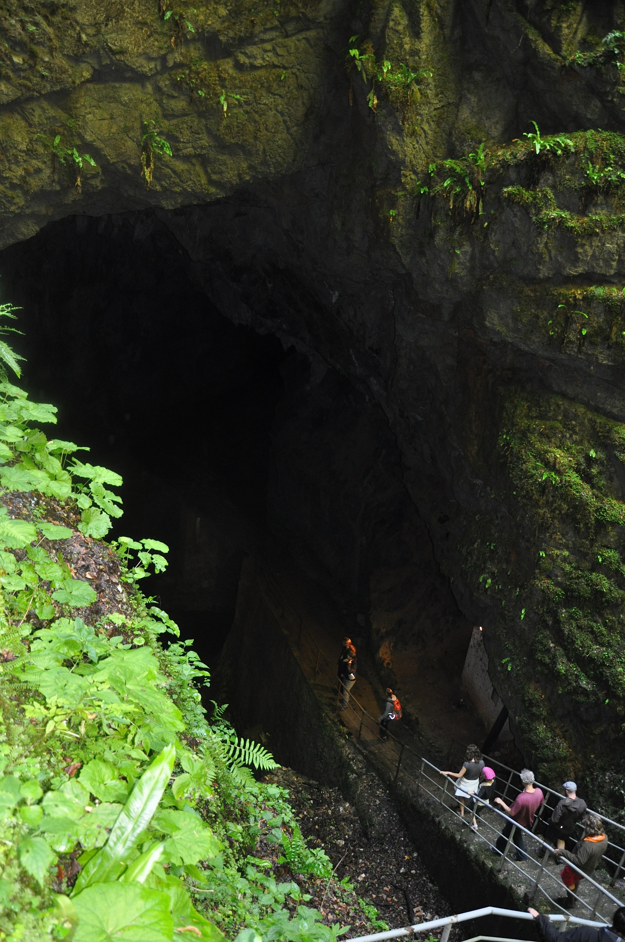 Pivka cave entrance, Slovenia